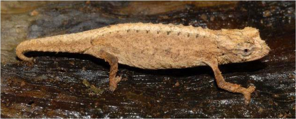 Female of Brookesia desperata.